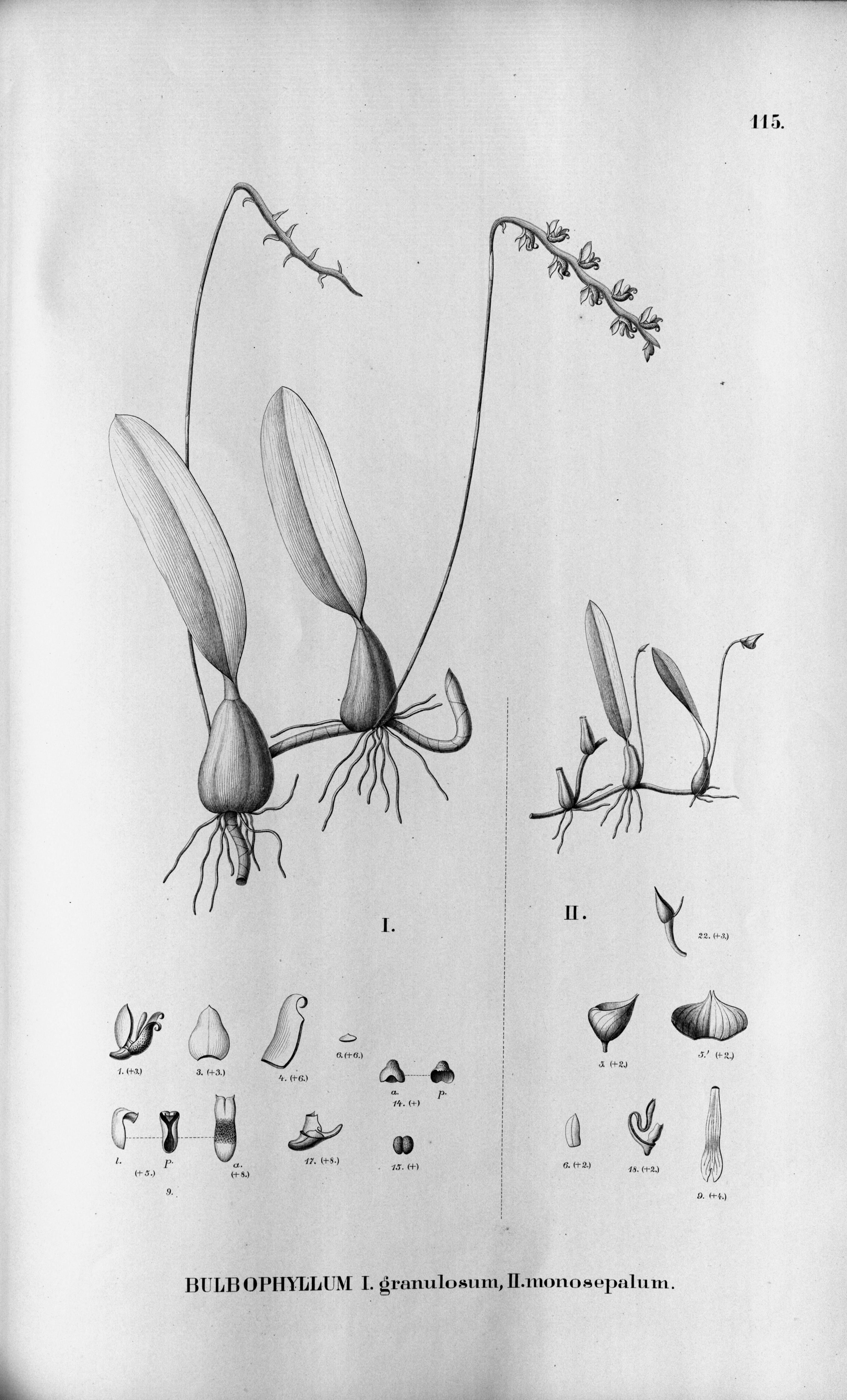 Illustration of: I. Bulbophyllum granulosum II. Bulbophyllum napellii (as syn. Bulbophyllum monosepalum)